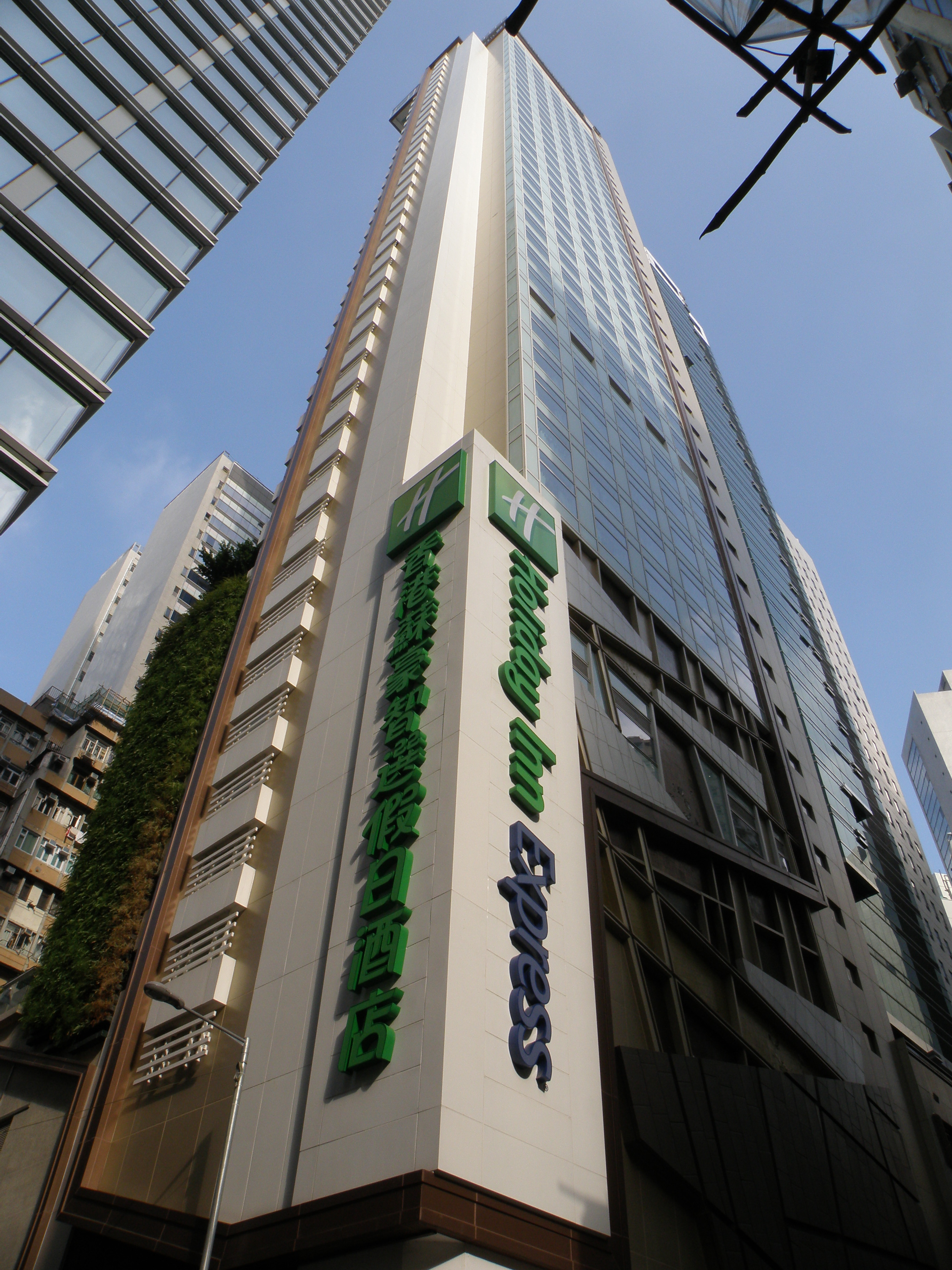 Holiday Inn Express Hong Kong Soho in Sheung Wan, Hong Kong.